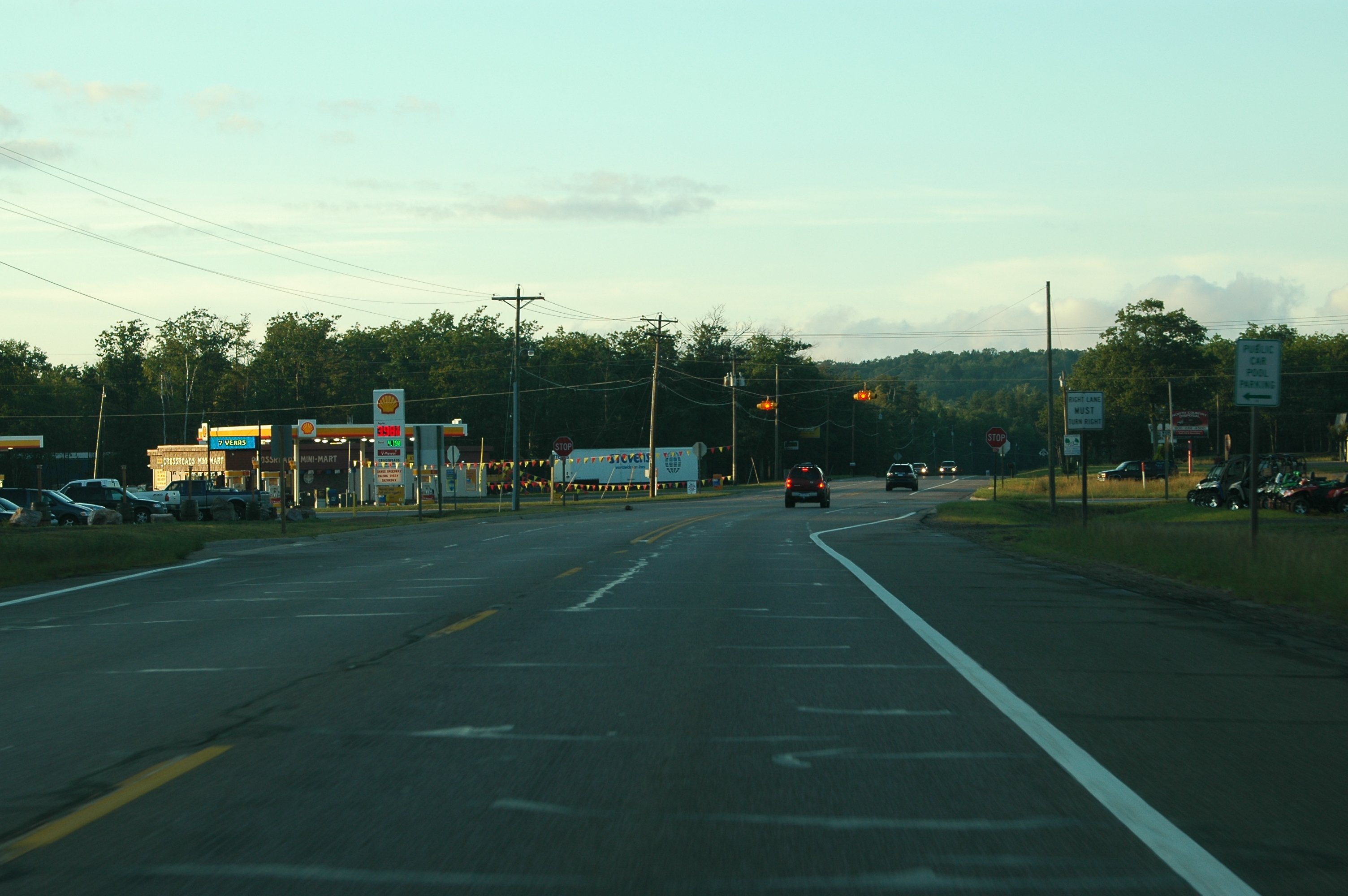 The Crossroads area in Sands Township, Michigan, at the crossing of M-553 and County Road 480